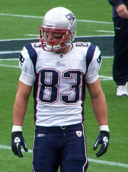 Wes Welker